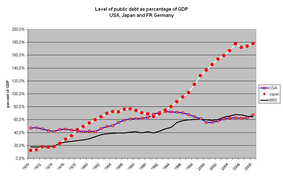 General government consolidated gross debt. USA, Japan, Germany (BRD).